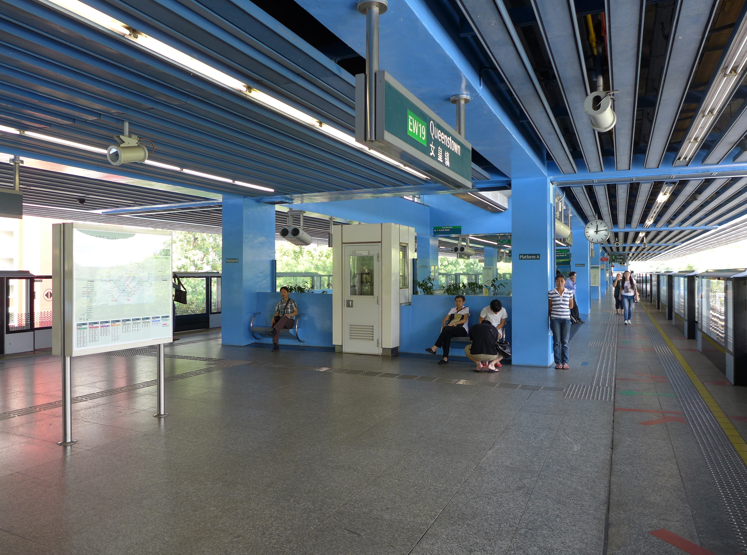 Queenstown Station Platform